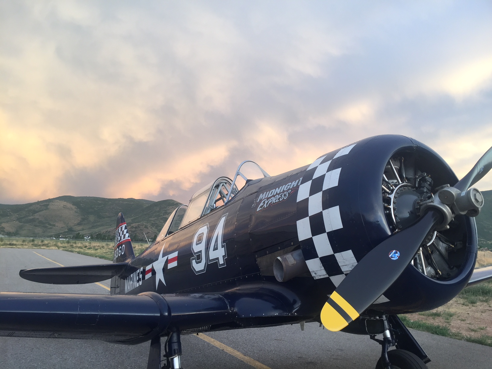 Sunset clouds behind a North American SNJ